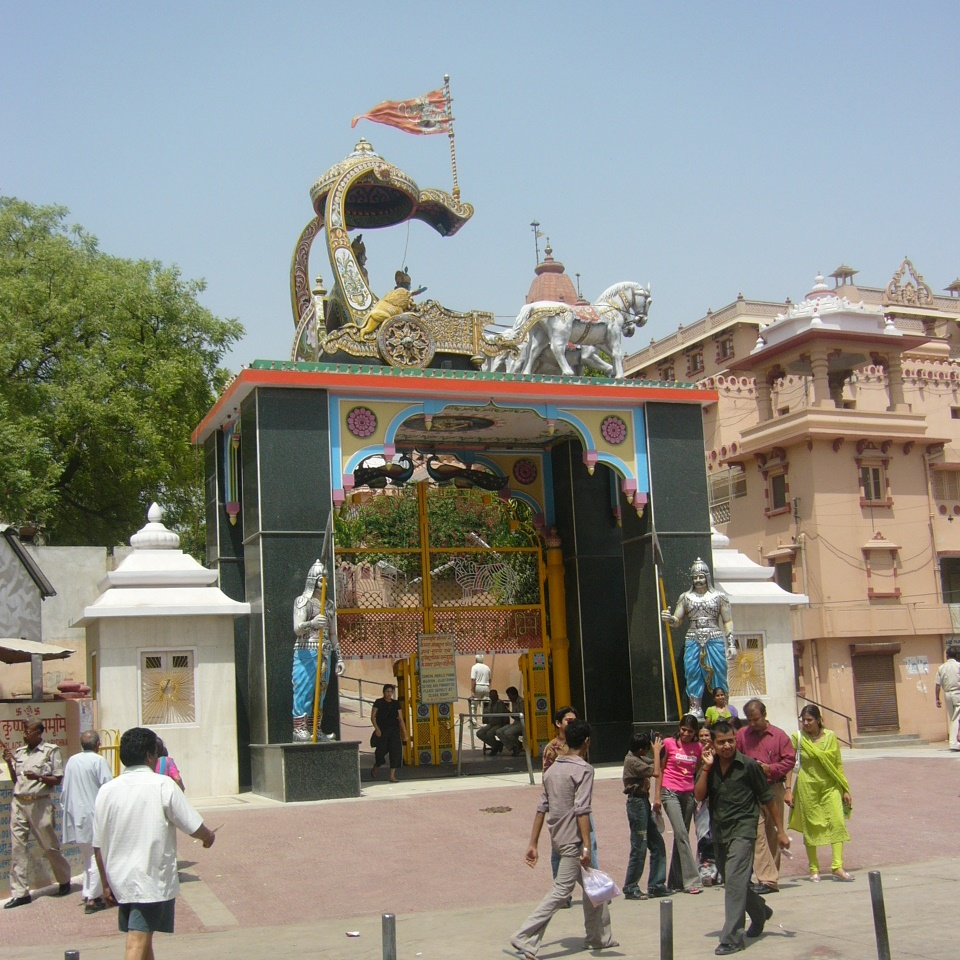 Mathura, India. Krishna Janmabhoomi and Keshav Deo Temple entrance. Photography not allowed inside the complex.